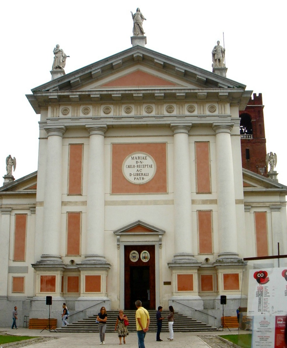 Castelfranco: Duomo